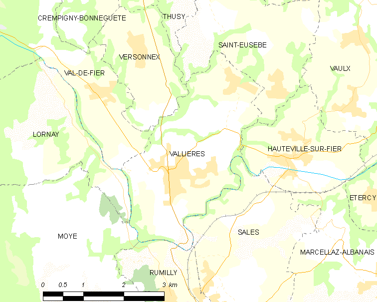 Map of French municipality Vallières